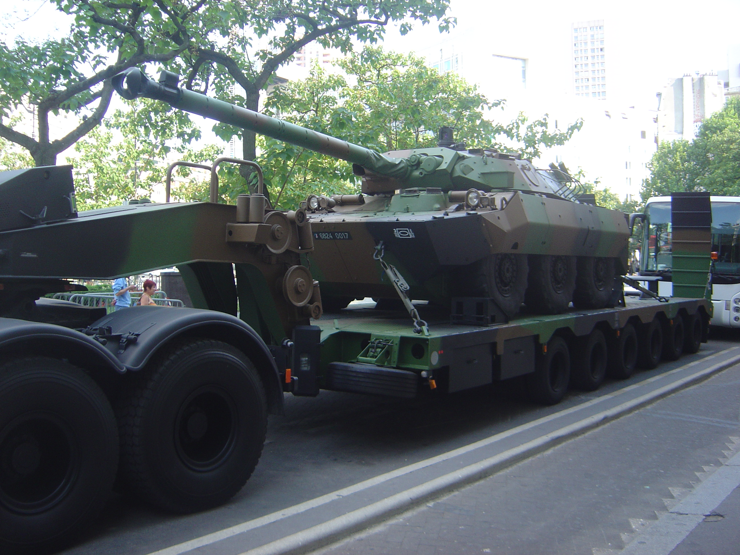 AMX 10 RC on a trailer